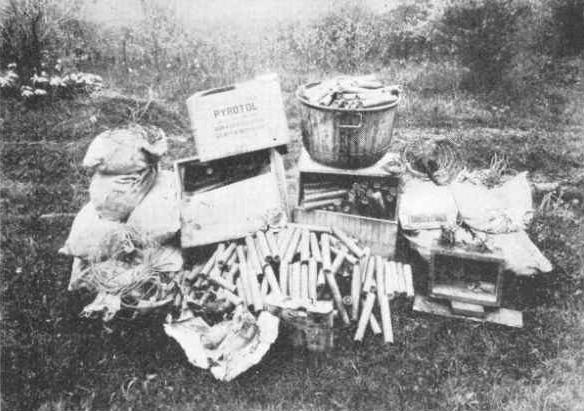 Five hundred and four pounds of unexploded dynamite and pyrotol found throughout the basement of the unwrecked portion of the Bath School (immediately after the building exploded on the morning of May 18, 1927). The dynamite and pyrotol were found by Michigan State Troopers Lieutenant Donald McNaughton & Ernest Halderman, Assistant Chief of the Michigan Secret Service Department of Public Safety Lieutenant Lyle W. Morse and Assistant Chief of the Lansing Fire Department Paul Lefke.